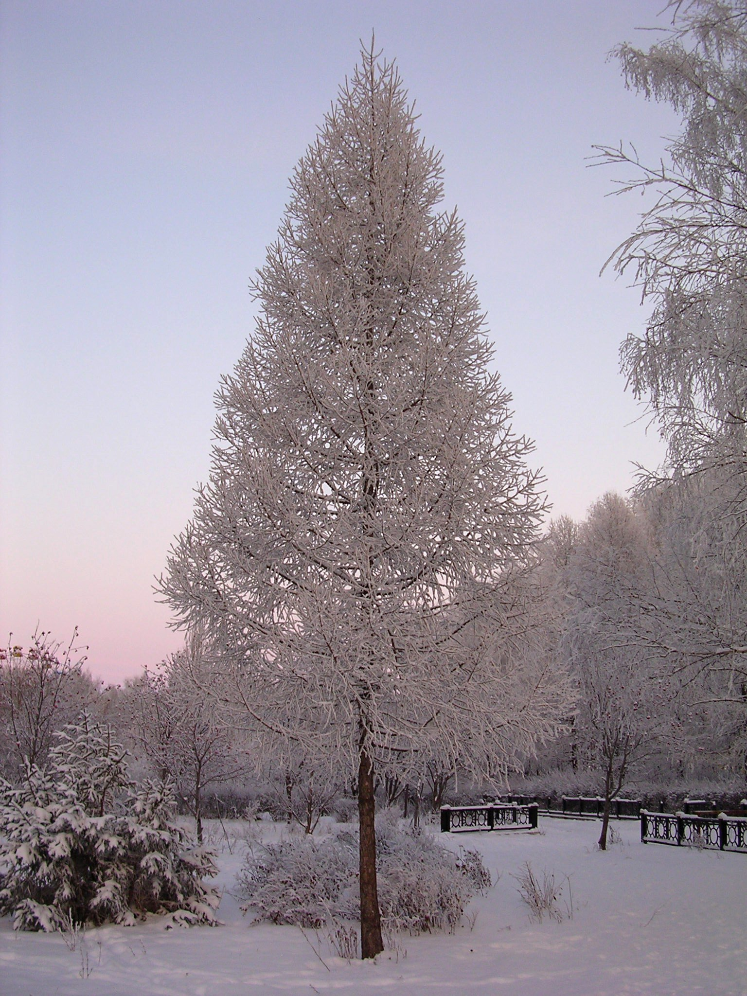 Larix in winter